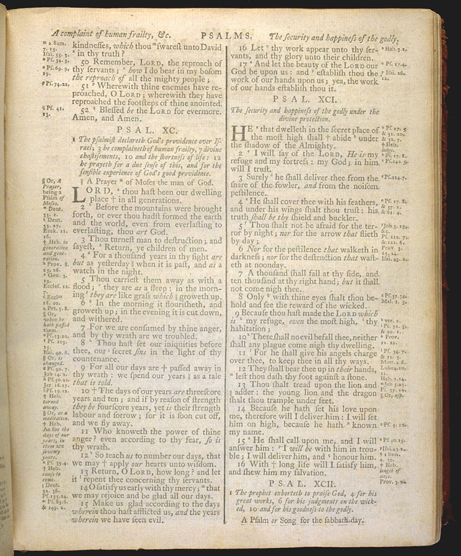 Psalm 90 and 91 of The Holy Bible, King James version, 1772.